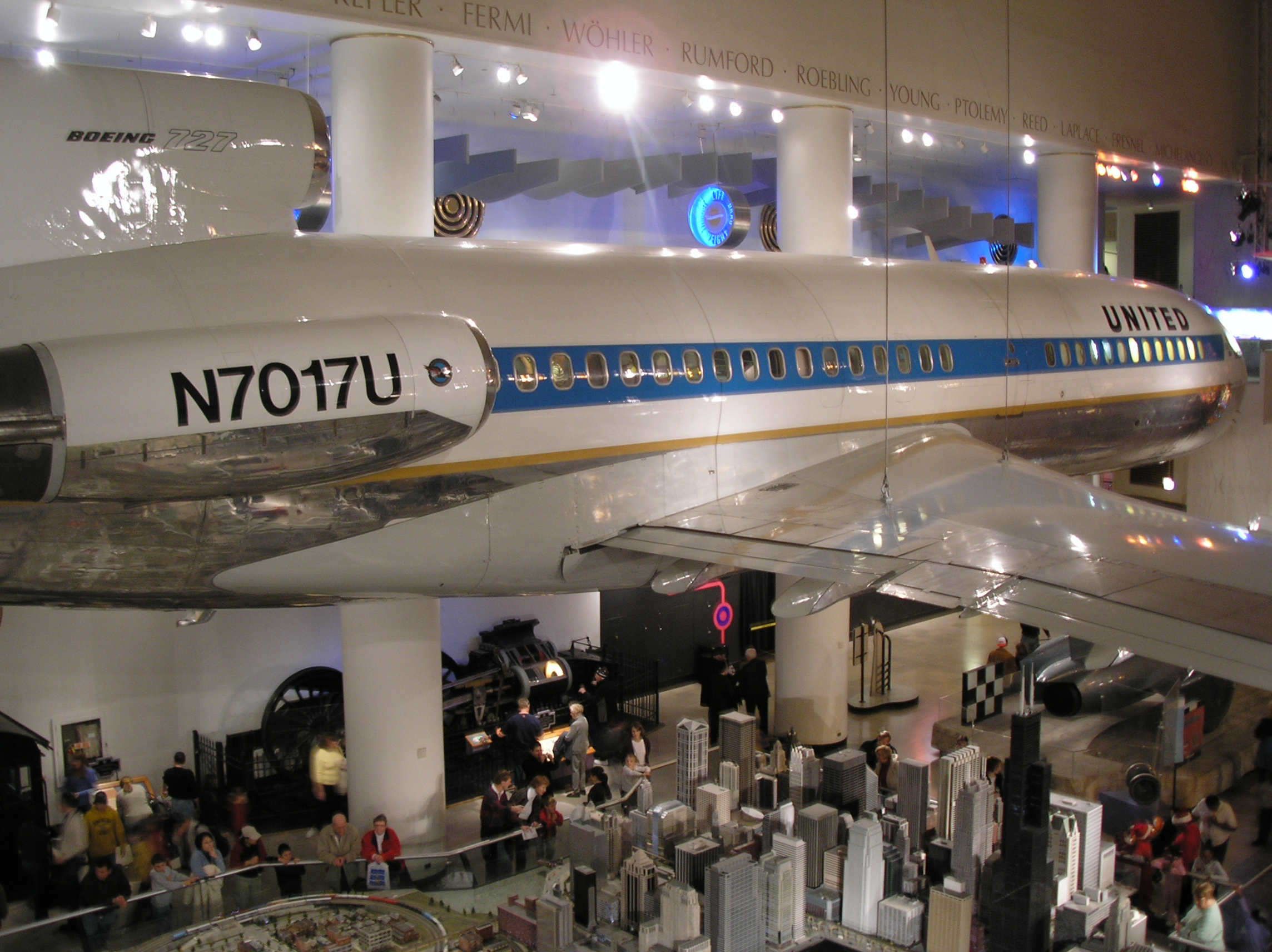 The Boeing 727 plane exhibit in the Museum of Science and Industry in Chicago.